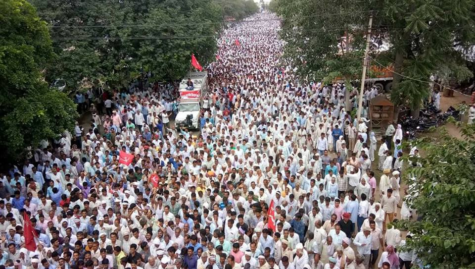 Picture on September 3 during Sikar Kishan Movement